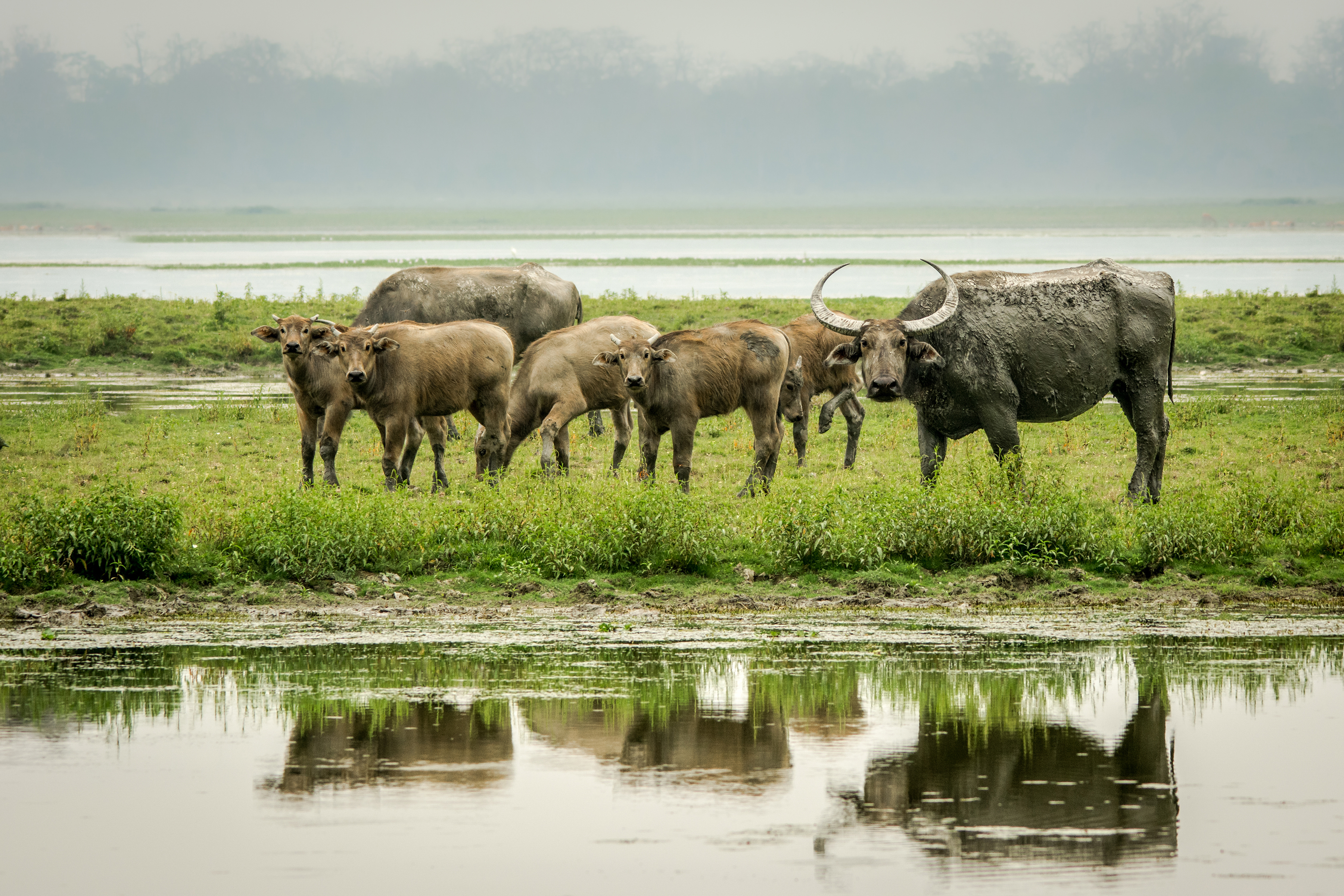 The wild water buffalo (Bubalus arnee) also called Asian buffalo, Asiatic buffalo and arni or arnee, is a large bovine native to the Indian Subcontinent and Southeast Asia. It has been listed as Endangered in the IUCN Red List since 1986, as the remaining population totals less than 4,000. In this frame a curious family of wild water buffalo at Kaziranga National Park, Assam, India